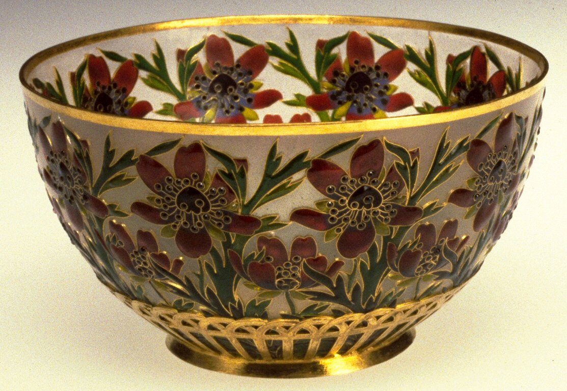 Thesmar began his career designing textiles but was later employed as an enameler. Beginning in about 1900, Thesmar began to work in "plique-à-jour," or openwork, enamel. By 1912, the year of his death, Thesmar was acclaimed as France's finest enameler. Because of their extreme fragility, few of his works survive. On the base of this cup is an enameled beetle.